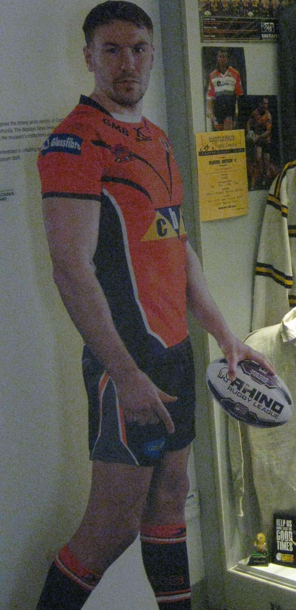 A display of memorabilia about Castleford Tigers in Castleford Forum Museum with a picture of one of the players for visitors to take a selfie. It looks to me like Zac Hardaker but without his arm tattoos.